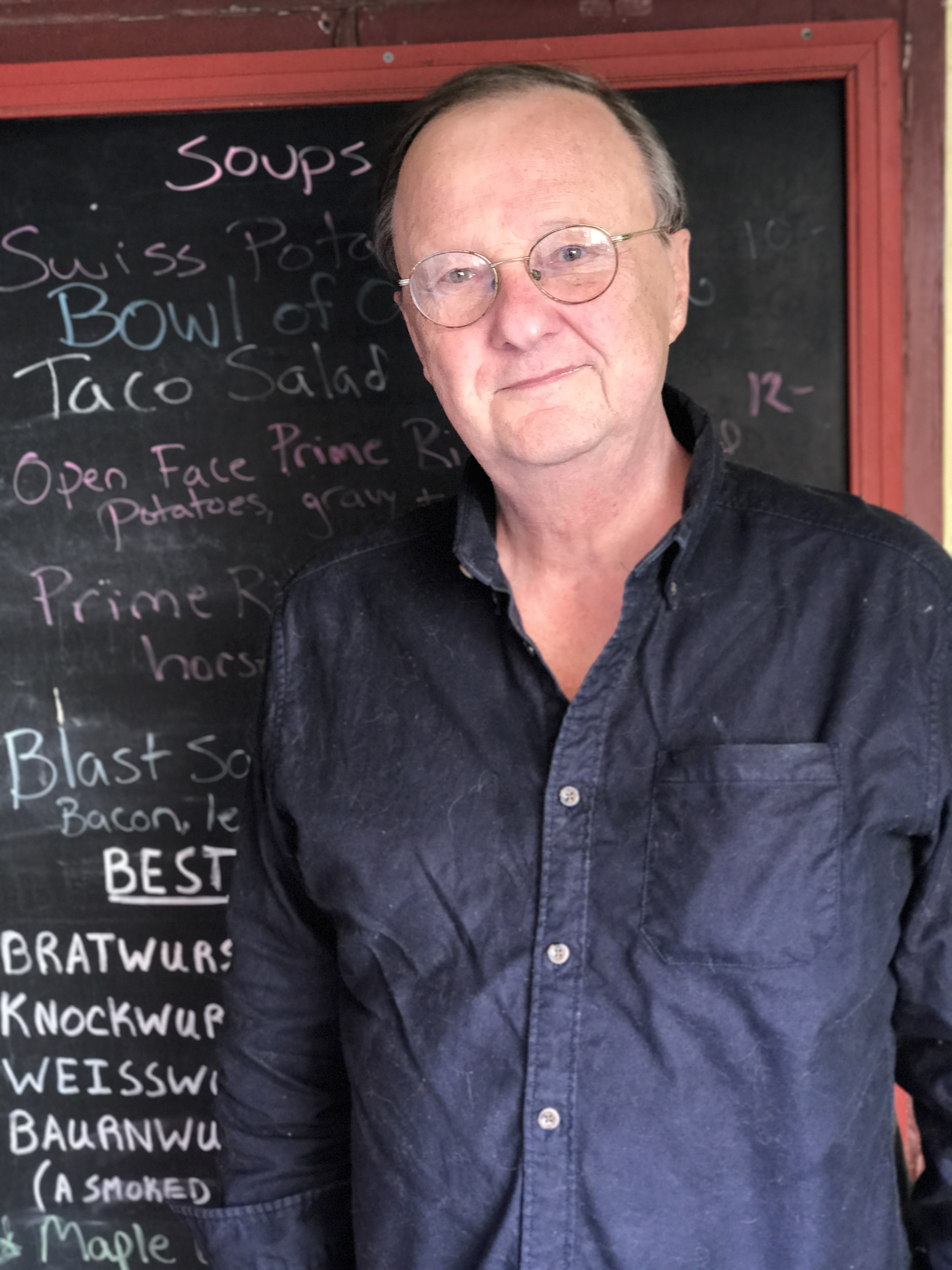 portrait pic of John S. Marr